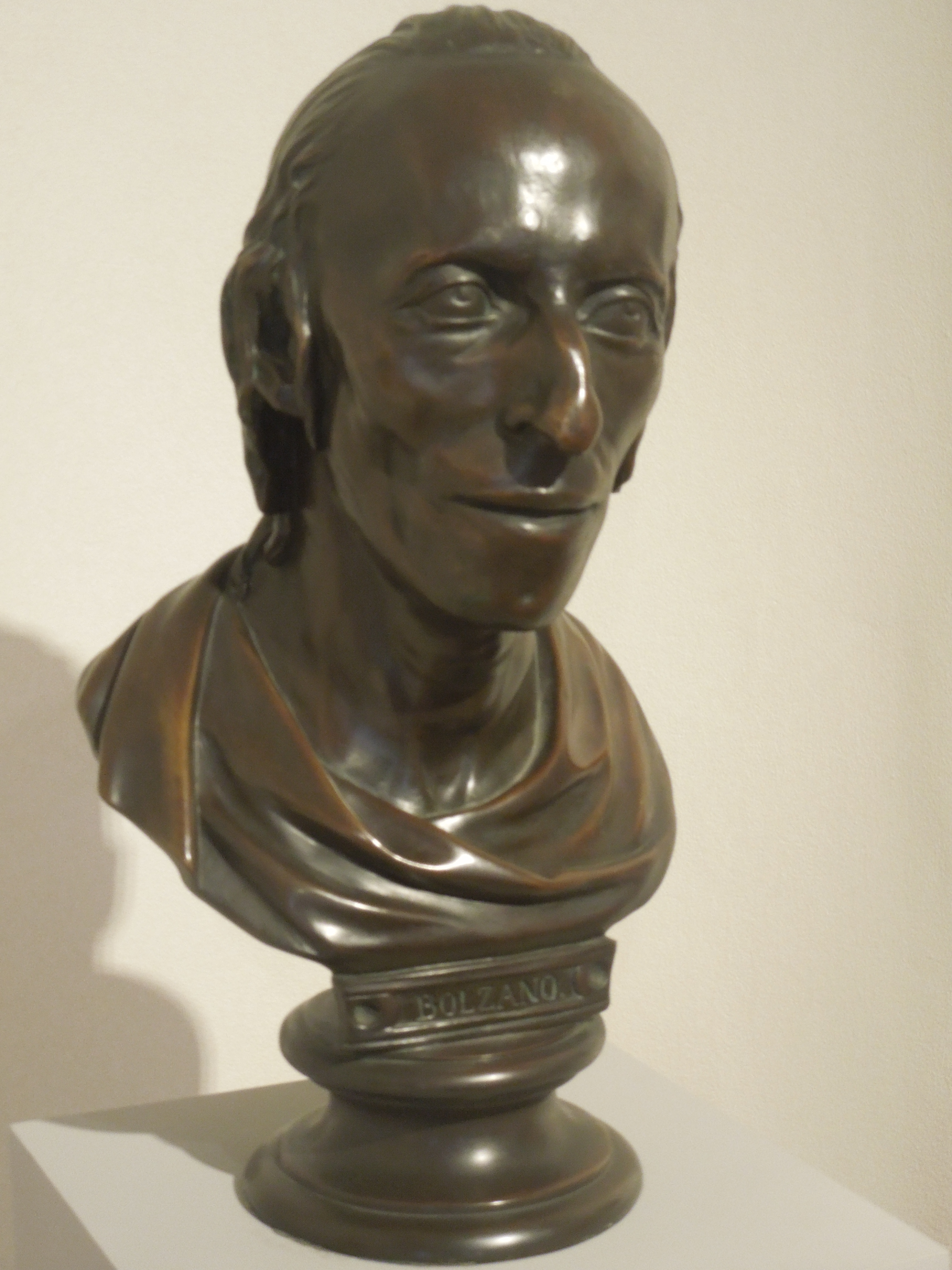 Ernst Popp (Arnošt Popp) - Portrait of Bernard Bolzano (1849)